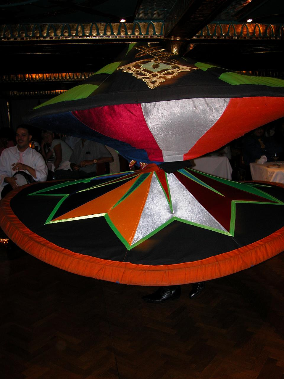 Belly-dancing dinner cruise